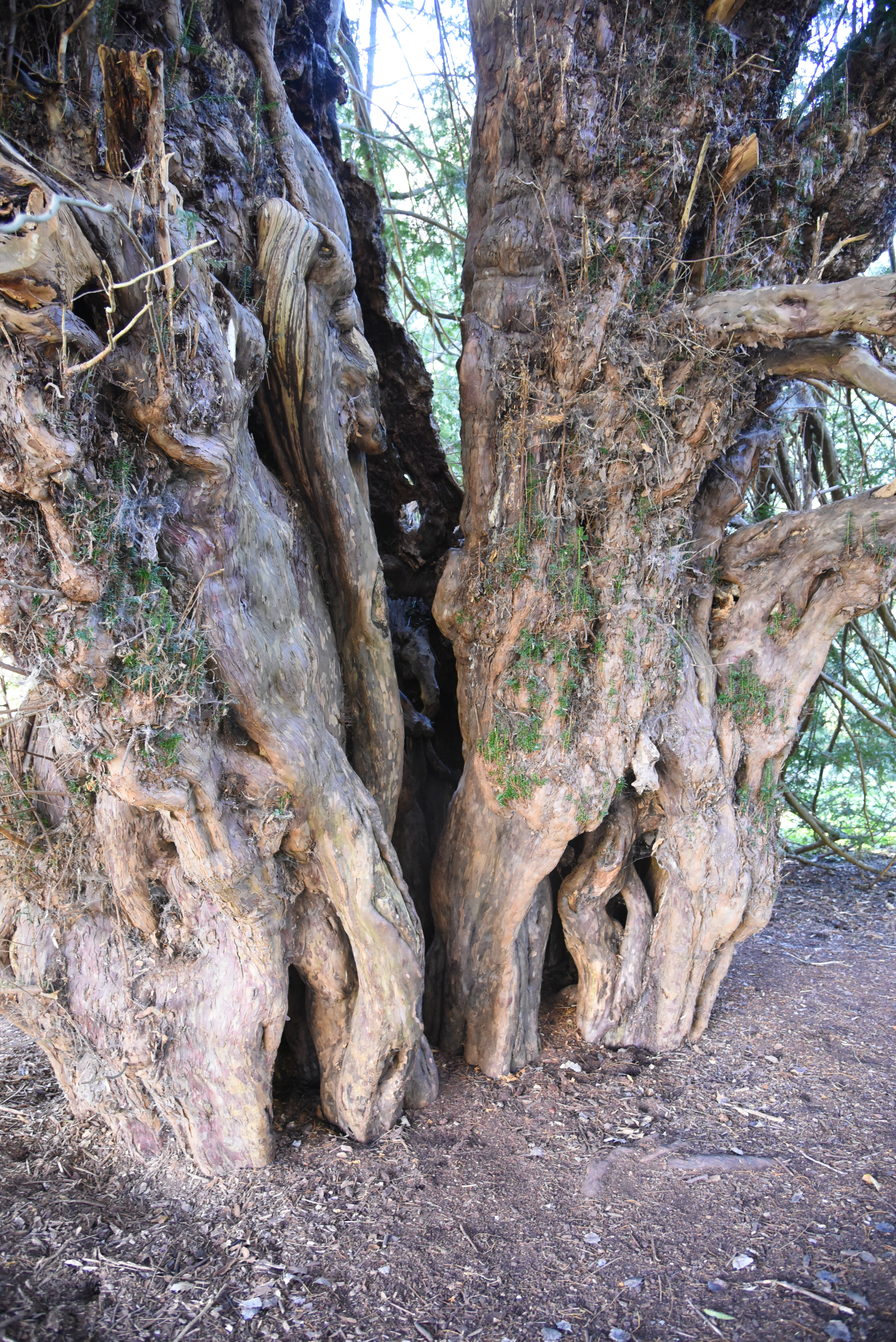 View of the Ankerwycke Yew from the east side, 2018